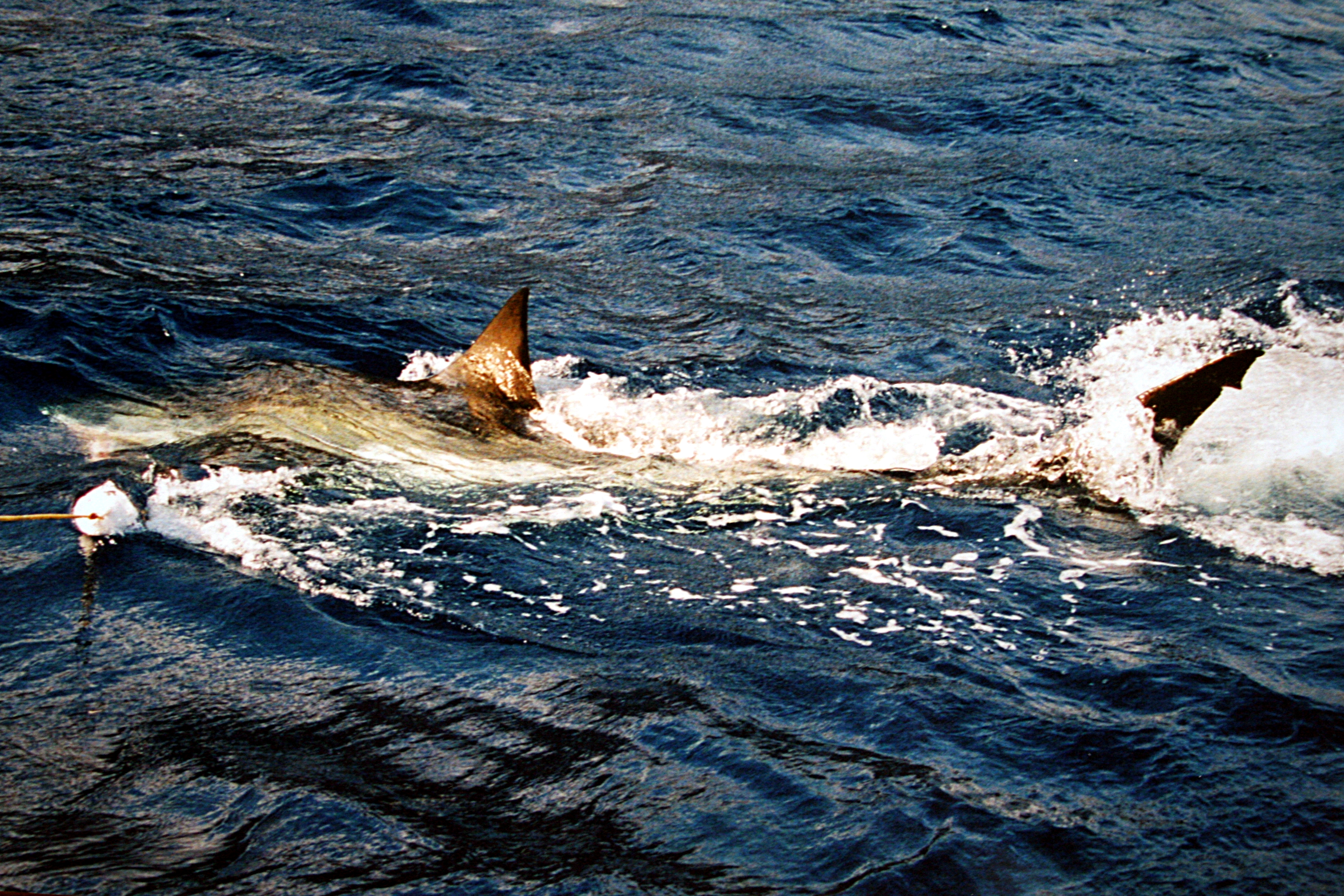 A great white shark at Isla Guadalupe, Mexico. Please note, we did not try to catch a shark. We did try to bring sharks closer to the cages. No shark was hurt. The picture is a digital copy of my old film picture.